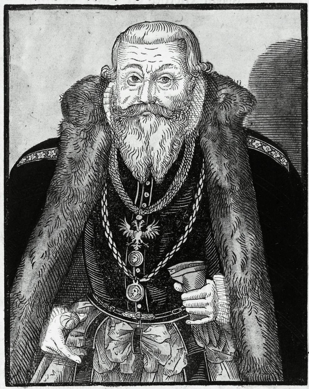 Georg II of Brieg